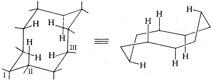 Cyclodecane configurations